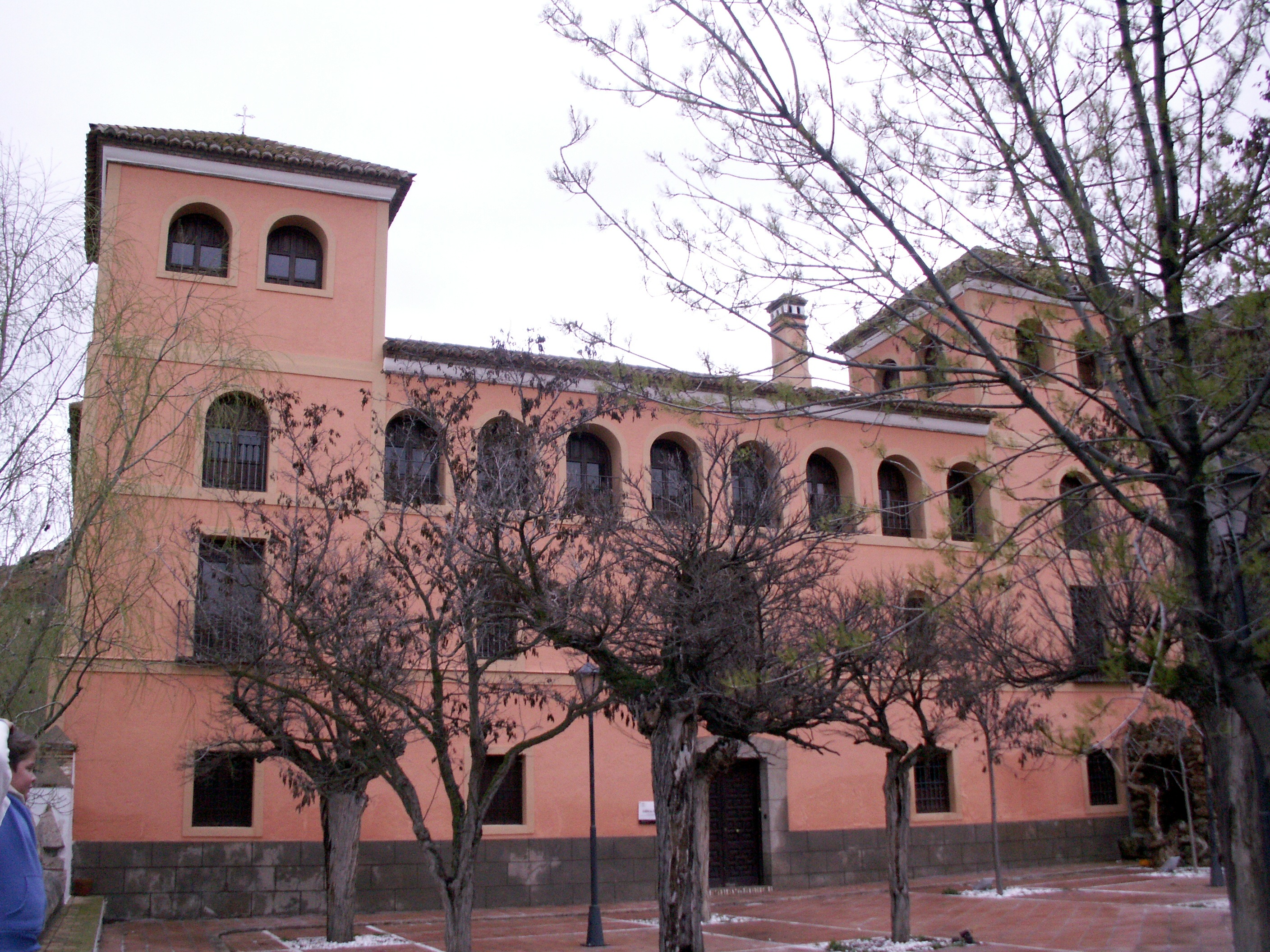 Negratin Lake in Zújar, Spain